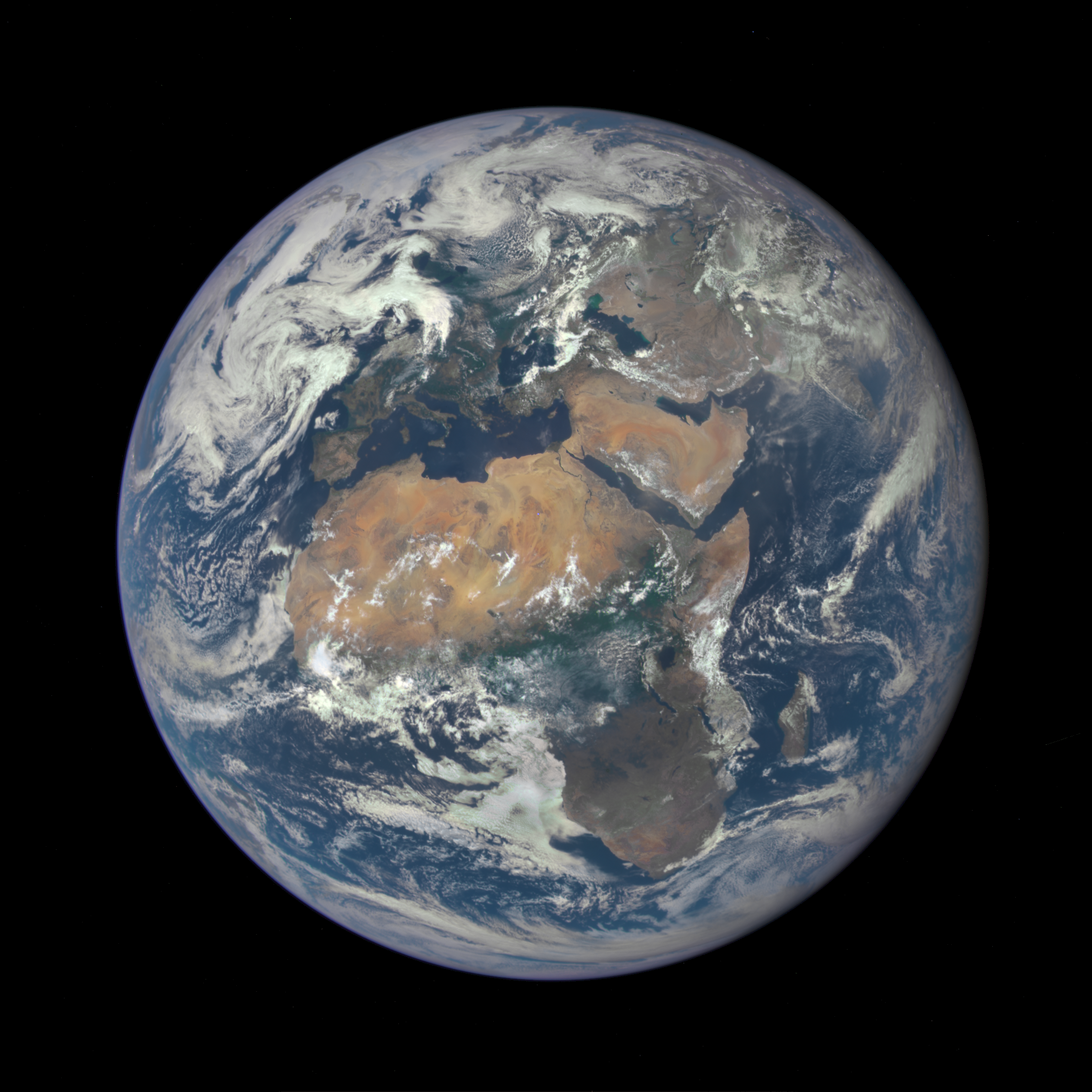 Africa is front and center in this image of Earth taken by a NASA camera on the Deep Space Climate Observatory (DSCOVR) satellite. The image, taken July 6 2015 from a vantage point one million miles from Earth, was one of the first taken by NASA’s Earth Polychromatic Imaging Camera (EPIC). Central Europe is toward the top of the image with the Sahara Desert to the south, showing the Nile River flowing to the Mediterranean Sea through Egypt. The photographic-quality color image was generated by combining three separate images of the entire Earth taken a few minutes apart. The camera takes a series of 10 images using different narrowband filters -- from ultraviolet to near infrared -- to produce a variety of science products. The red, green and blue channel images are used in these Earth images.